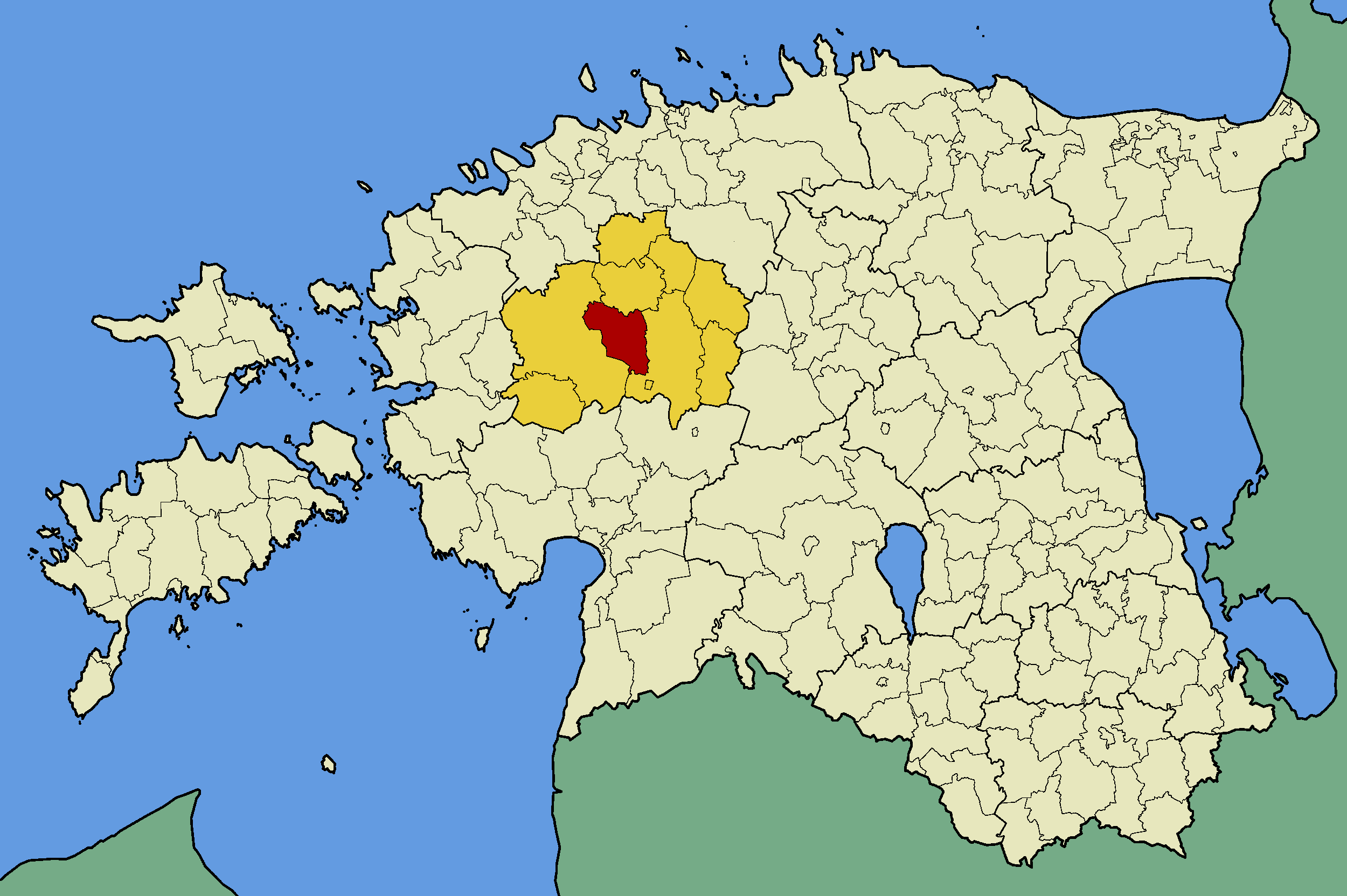 Map of Estonia with borders of municipalities (parishes). Rapla county and Raikküla municipality emphasized.